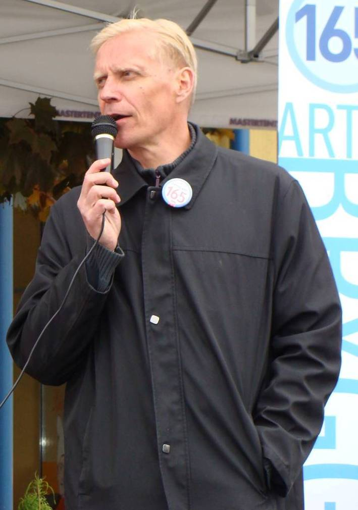 Finnish hurdler and politician (Social Democratic Party of Finland) Arto Bryggare in Heinola